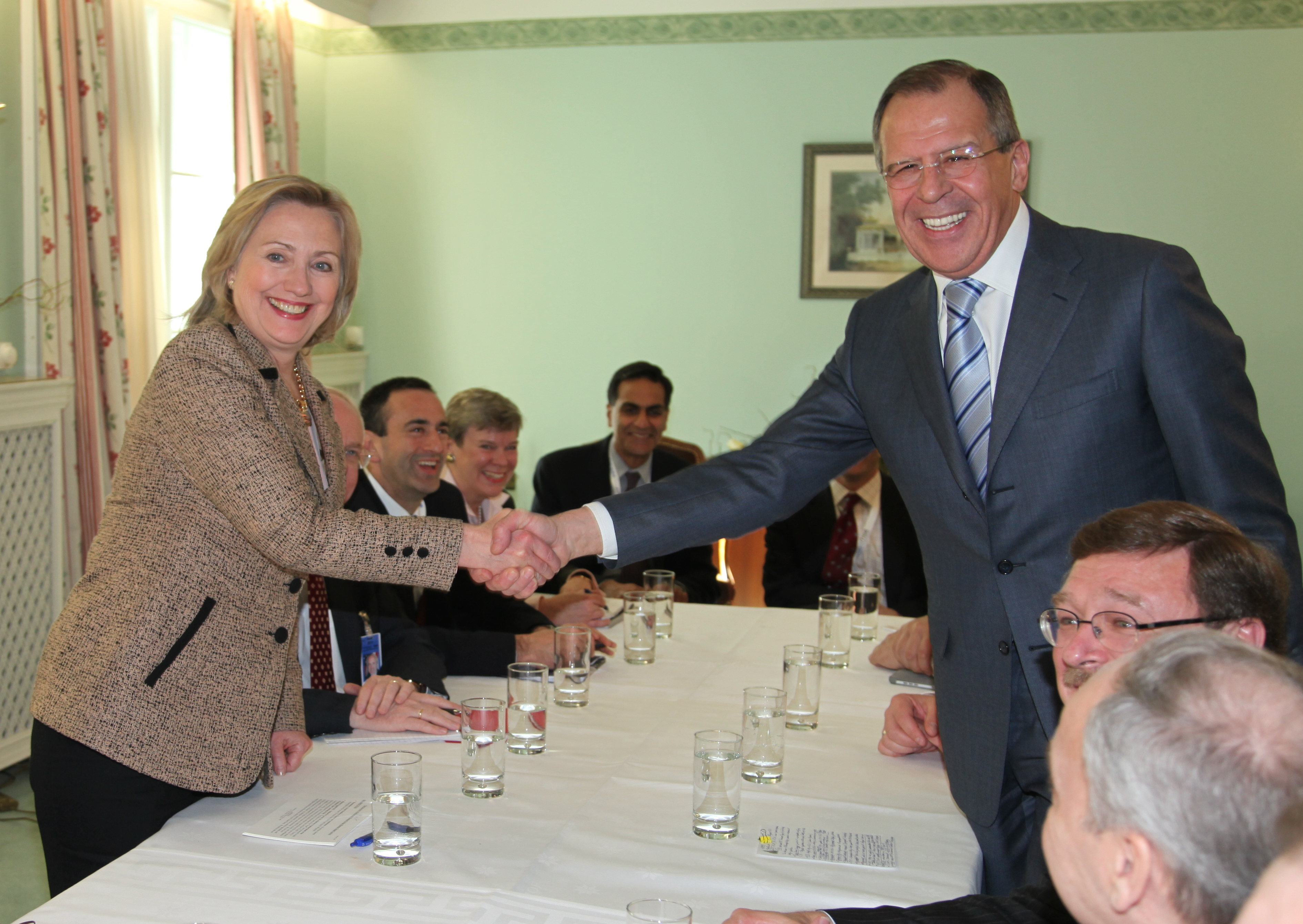 U.S. Secretary of State Hillary Rodham Clinton and Russian Foreign Minister Lavrov shake hands after signing the New START Treaty at the Munich Security Conference in Munich, Germany, on February 5, 2011. [State Department photo/ Public Domain]